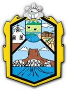 Coat of Arms of Gonzalez Tamaulipas